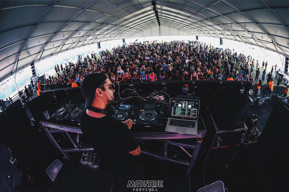 Pablo Vintura at Moonrise Festival